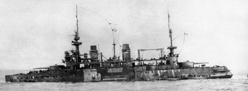 The badly damaged battleship Gaulois after the battle of the Dardanelles in 1915.